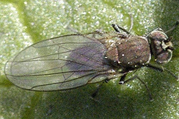 Picture taken in Commanster, Belgian High Ardennes . Species: Hydrellia griseola